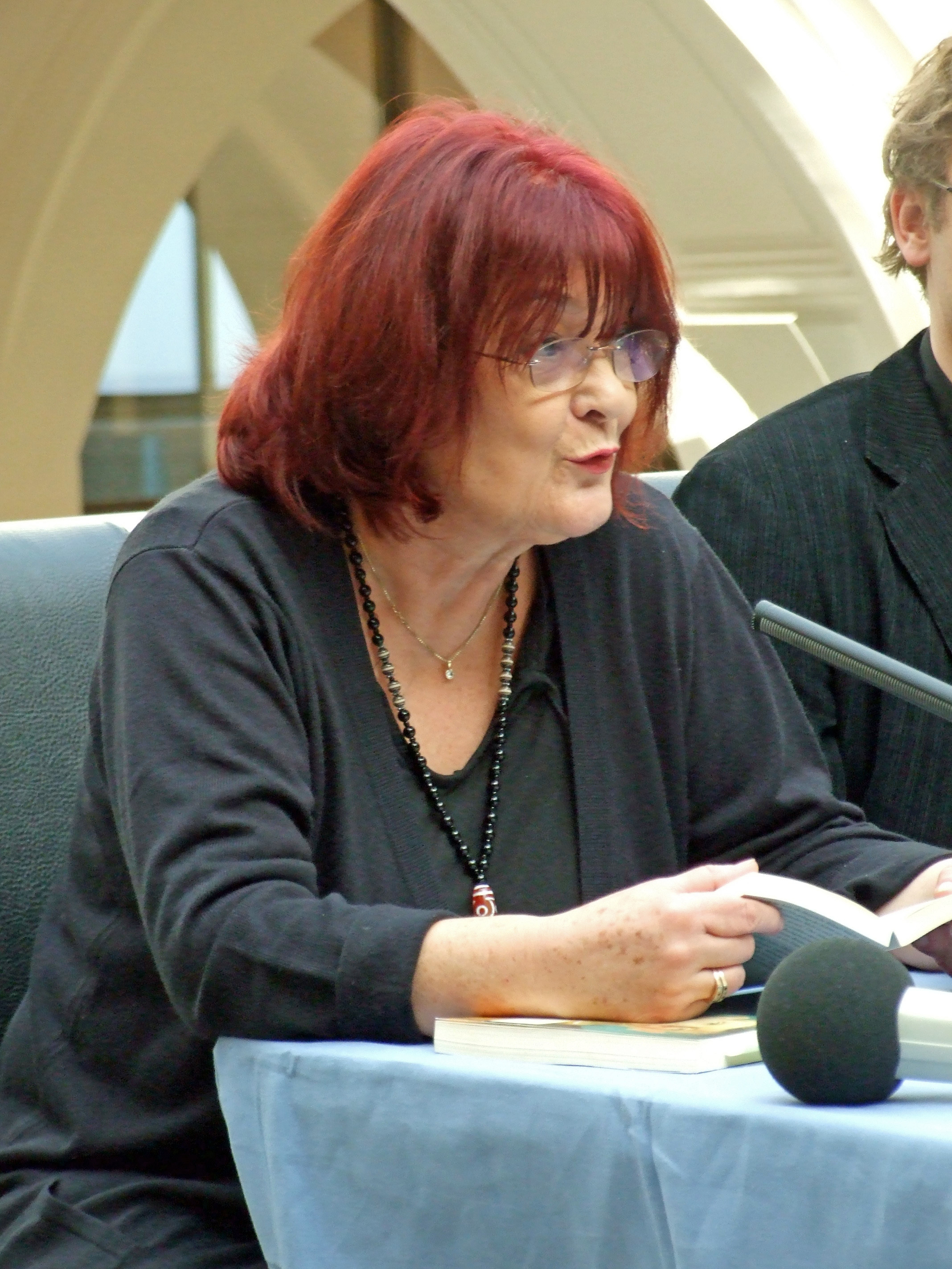 Eva Demski (German writer) at Frankfurt am Main